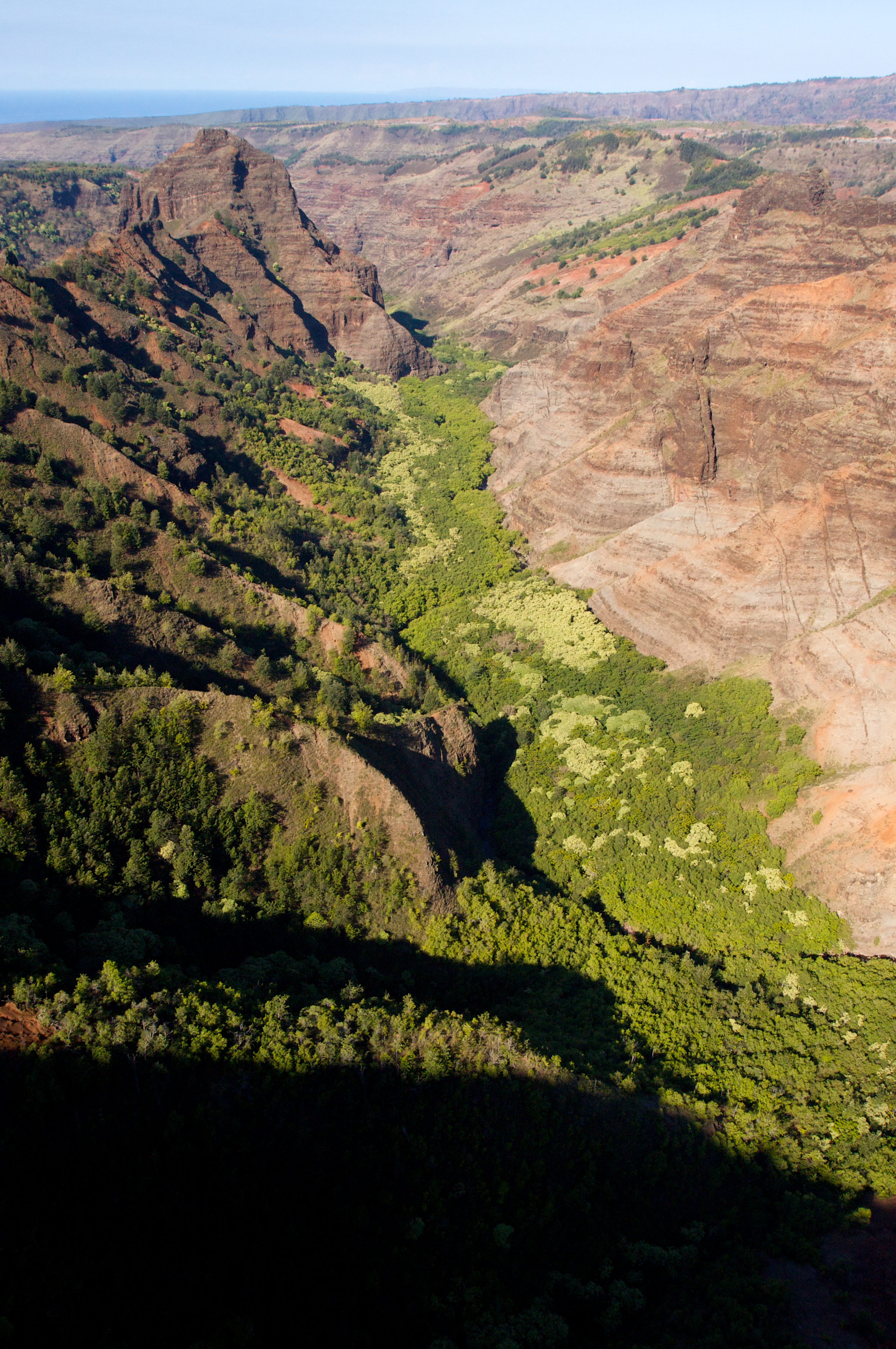 Waimea Canyon located on the western side of Kauaʻi in the Hawaiian Islands